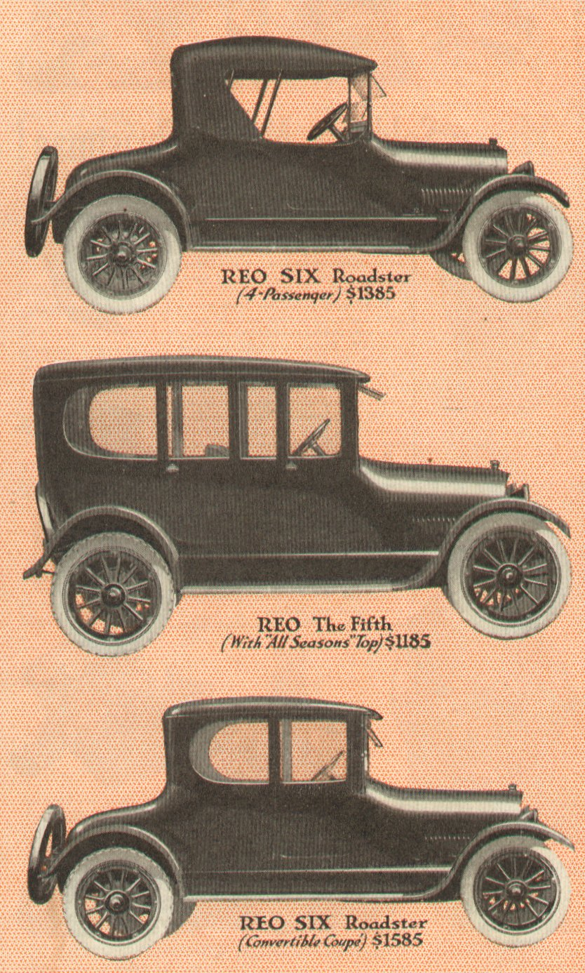 REO Motor Car Company advert